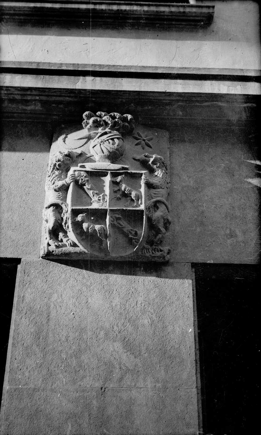 Coat of arms in a house at Arragueta street, Eibar, the Basque Country.